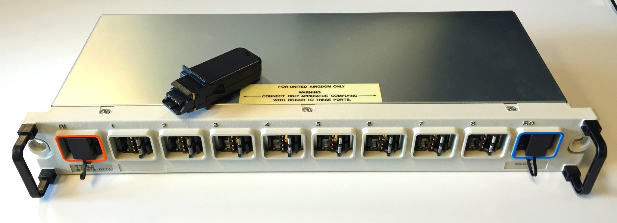 The IBM 8228 MAU featured with its setup aid to prime the ports.